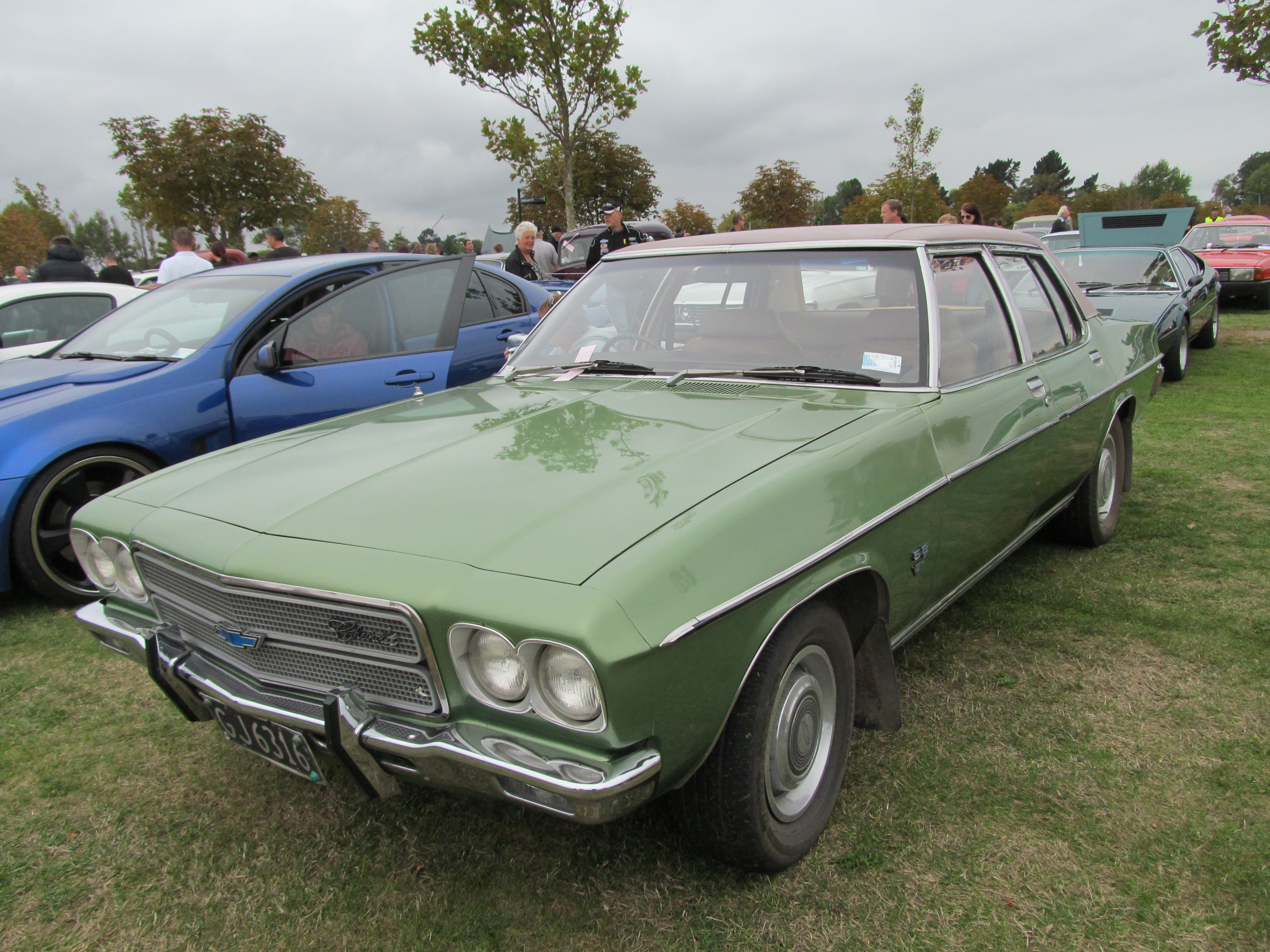 1972 Chevrolet 350 V8 sedan, photographed in New Zealand. This is a rare rebadged variant of the Statesman HQ sold new in NZ, first registered in December 1972.